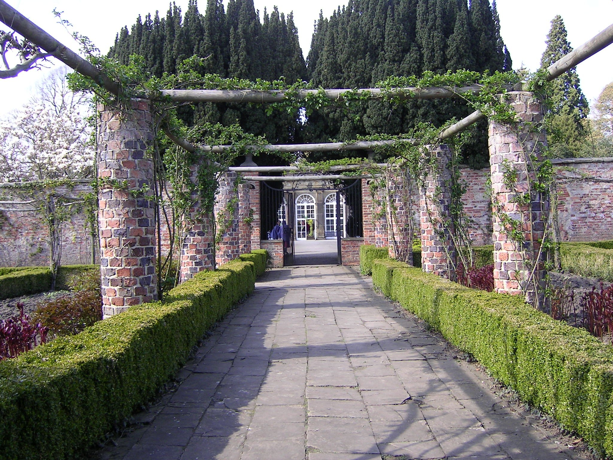 Gardens at Ripley Castle